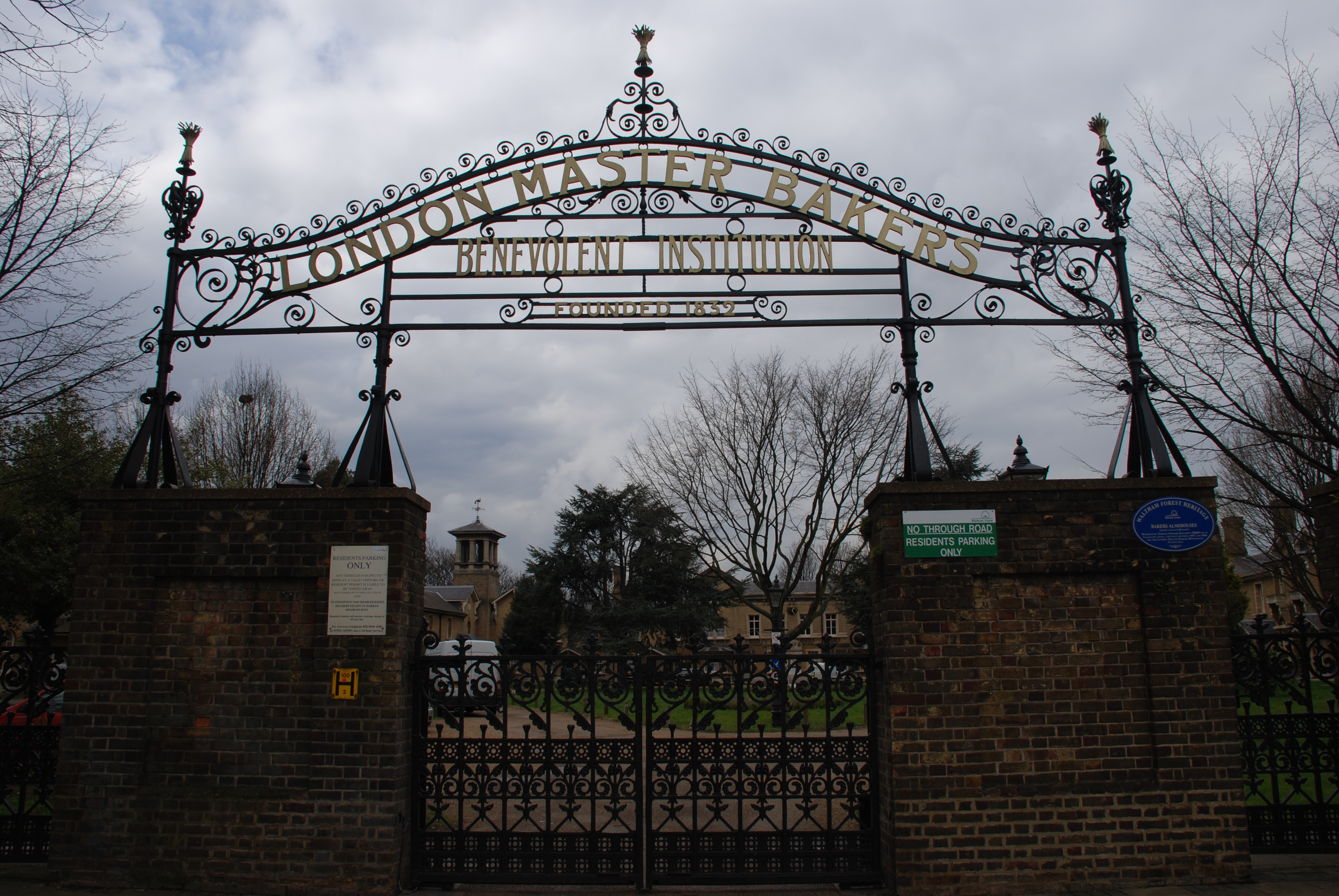 Gates to London Master Bakers' Benevolent Institution almshouses in Leyton, east London